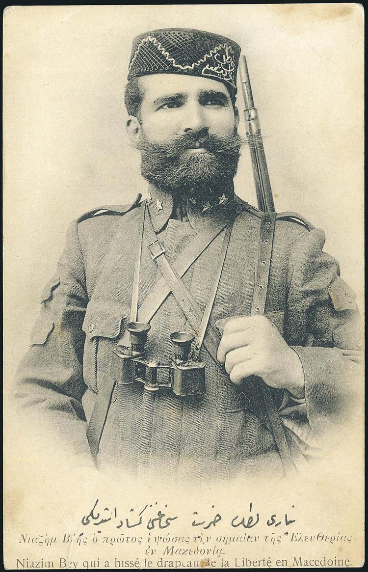 Postcard: "Niyazi Bey, who raised the flag of liberty in Macedonia."